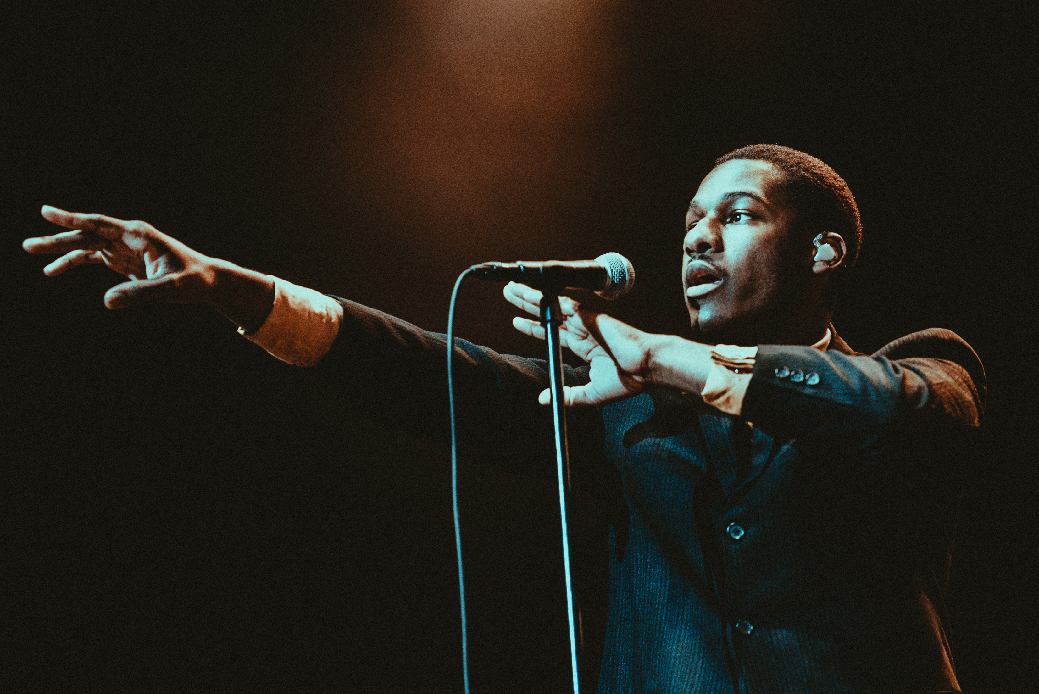 Leon Bridges performing at Music Hall at Fair Park in Dallas, Texas 9.18.16